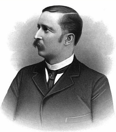 Hosea H. Rockwell, Congressman from New York